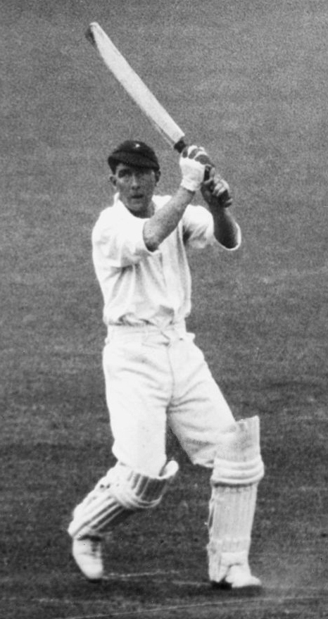 circa 1930: South African wicketkeeper Jock Cameron (1905 - 1935) at the crease.